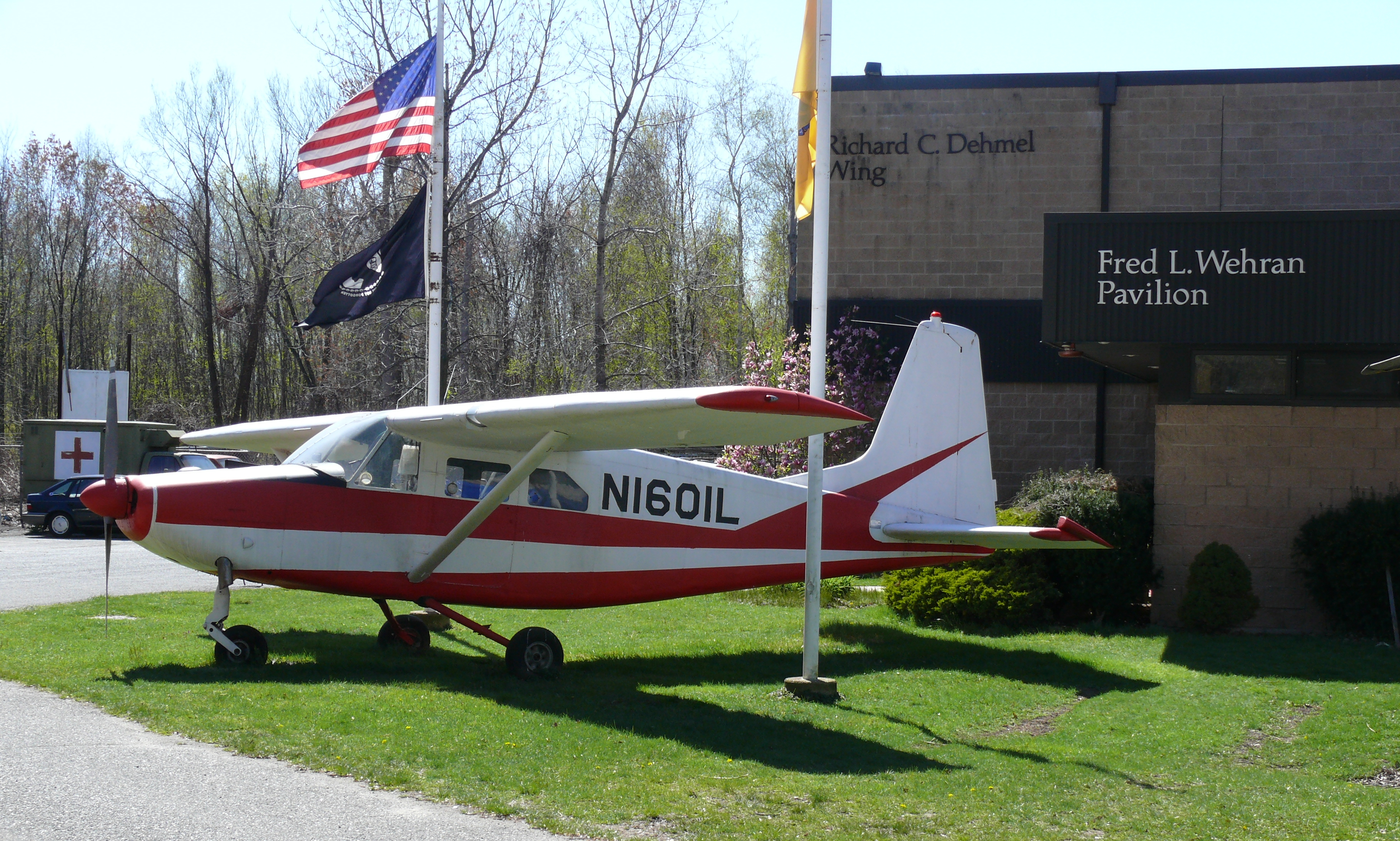 One of two prototypes of the Lockheed L-402 Bushmaster built in 1962 (c/n 1009) at the Aviation Hall of Fame and Museum of New Jersey. Lockheed did not put the aircraft into full production as they felt it would be unprofitable to produce in the US at that time and licensed the design to Aeromacchi of Italy who produced it as the AL-60B and AL-60B. The present owners are trustees of the University of Princeton.